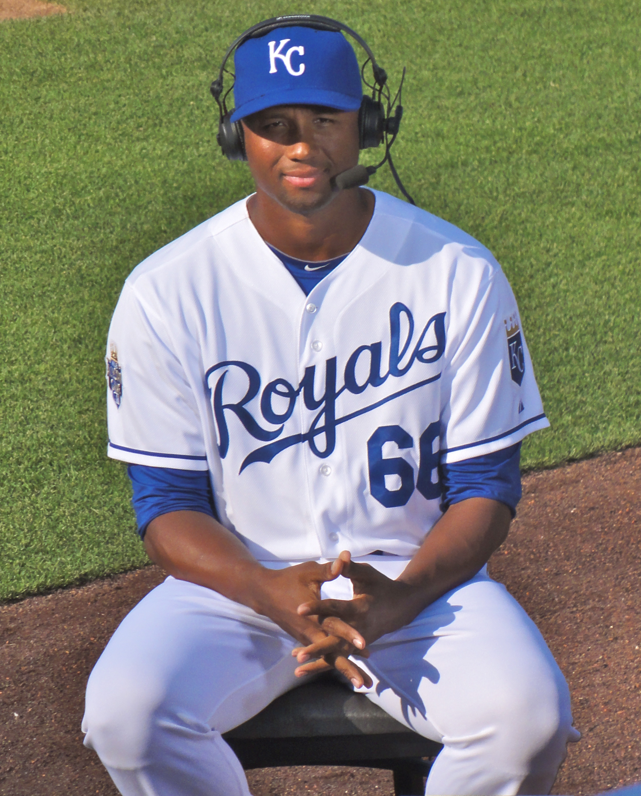 Kansas City Royals pitcher Román Colón being interviewed at Kauffman Stadium, 2012.